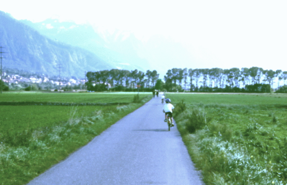 Cycle-route in the Alpine Rhine Valley between Bad Ragaz and Chur